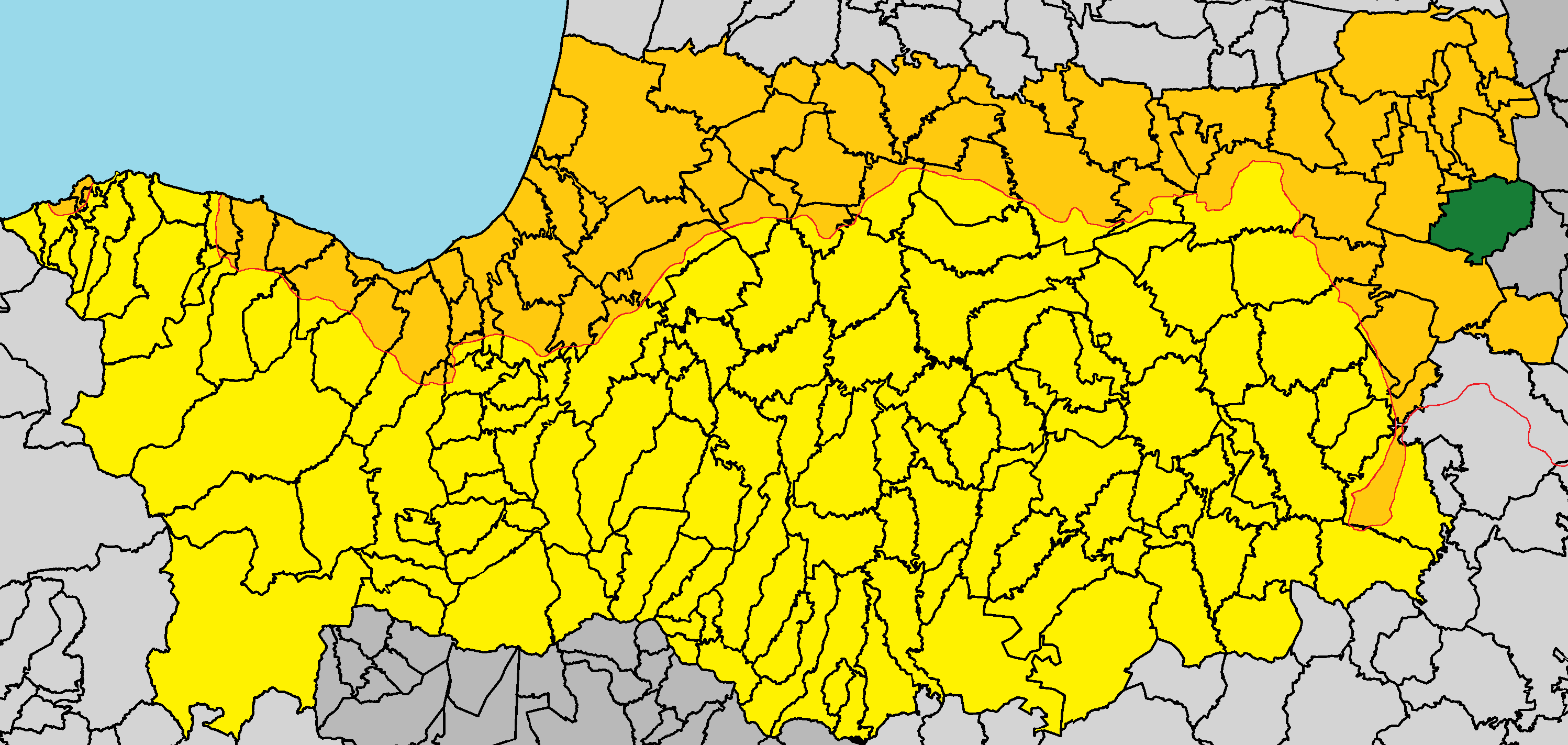 Mora in Nicosia District (de jure).